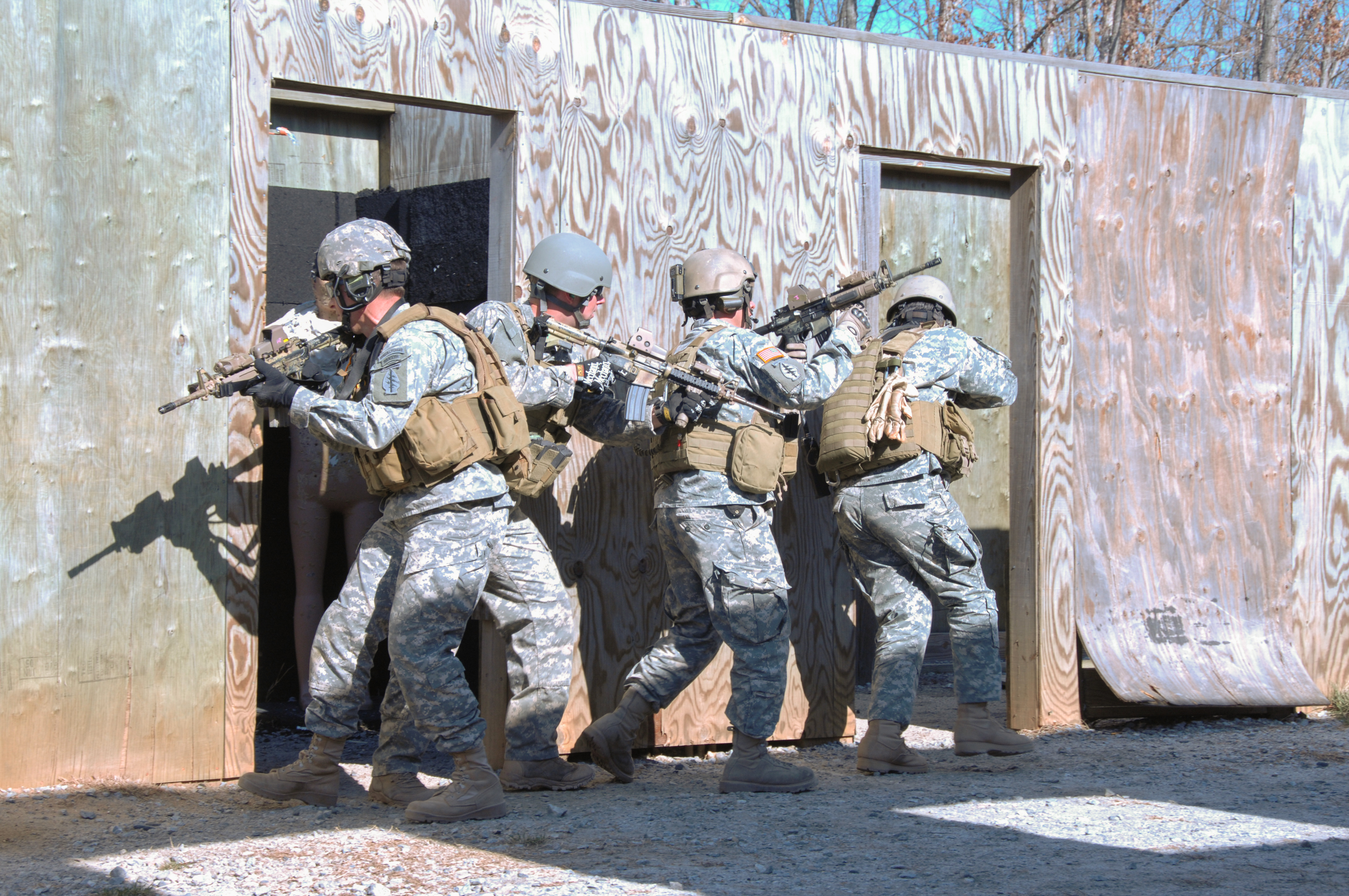 U.S. Army Soldiers from Alpha Co., 3rd Battalion, 3rd Special Forces Group (Airborne) demonstrate how to perform a four-man stack in an artificial building during Exercise Southbound Trooper IX at Fort Pickett, Va.